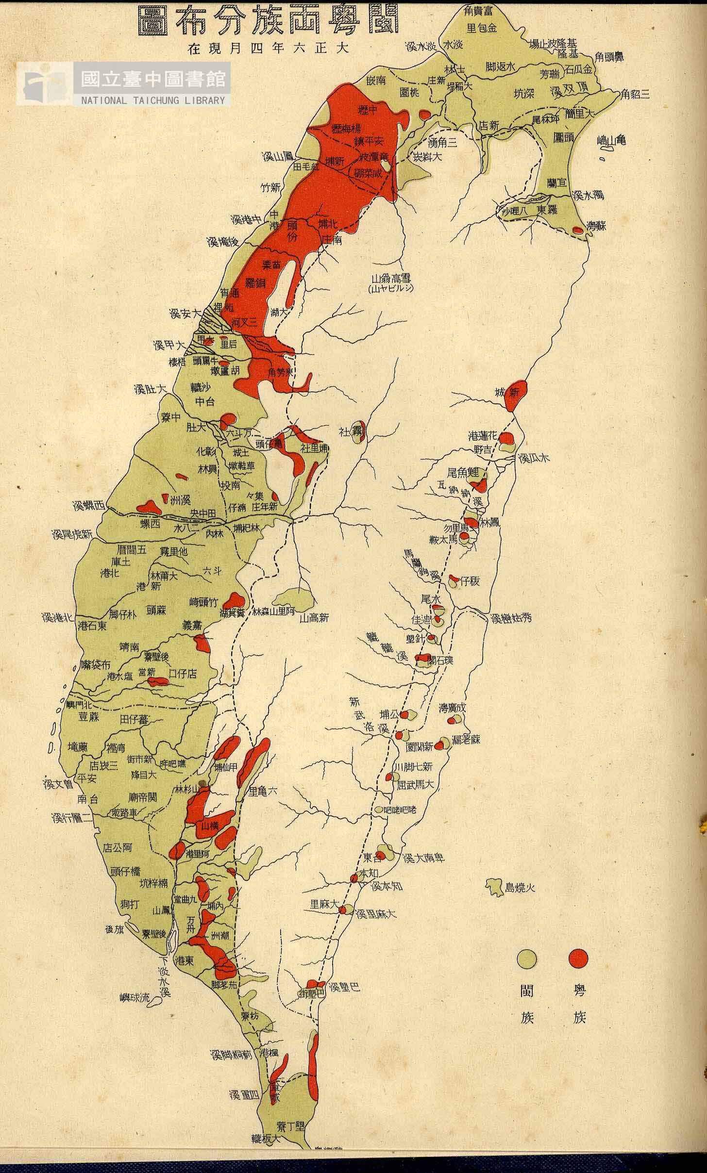 Distribution of Hokkien and Hakka people in Taiwan